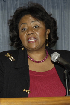 Linda Cropp speaks to a Department of Commerce Bureau of Economic Analysis gathering as part of the department's African American History Month program - Feb 1, 2006.